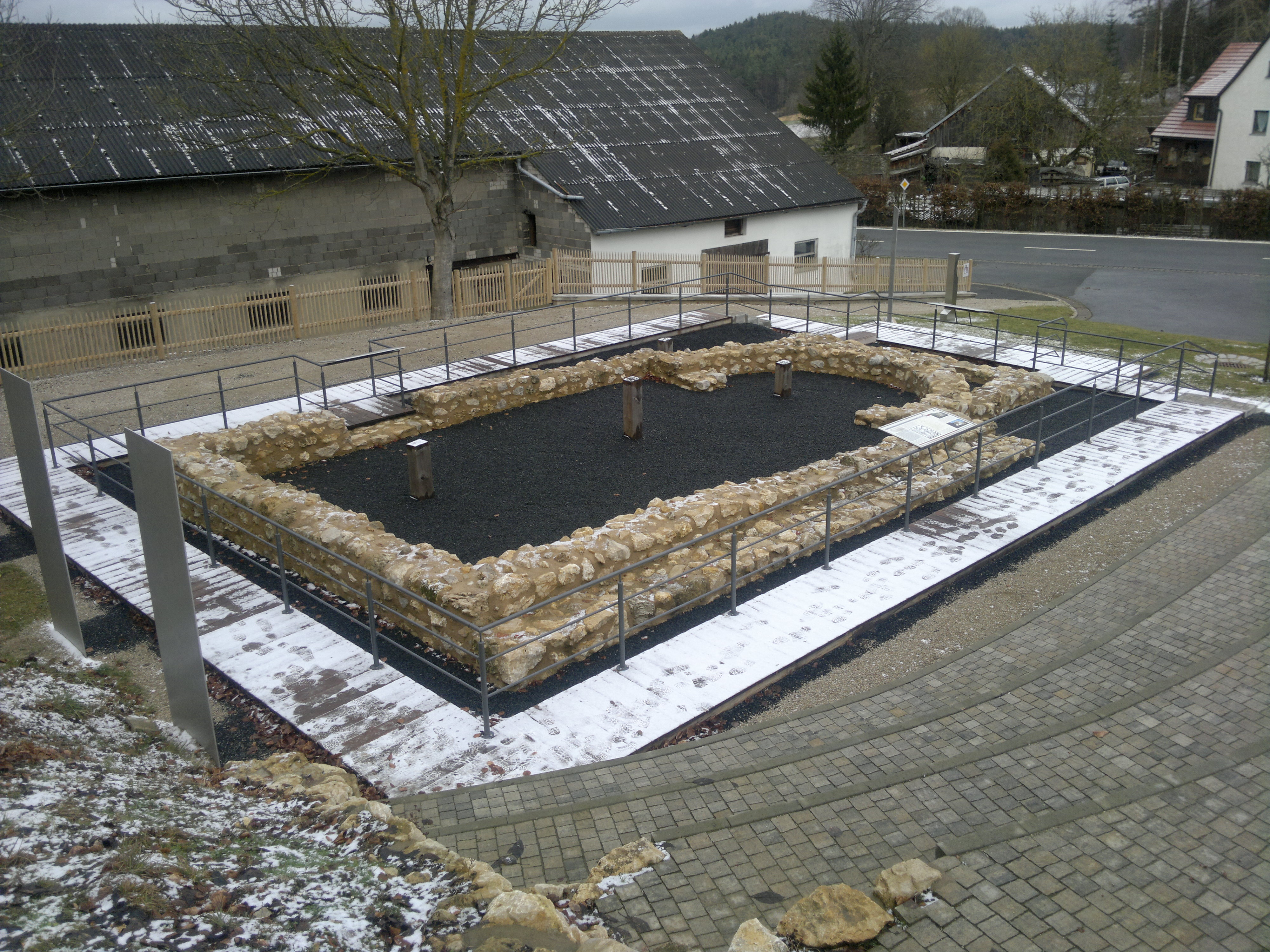 Ermhof Church basement restored - Winter 2013